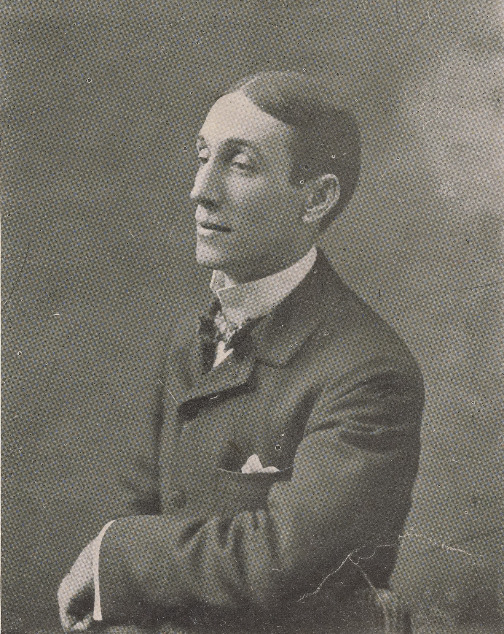 Photograph of Dan Daly.